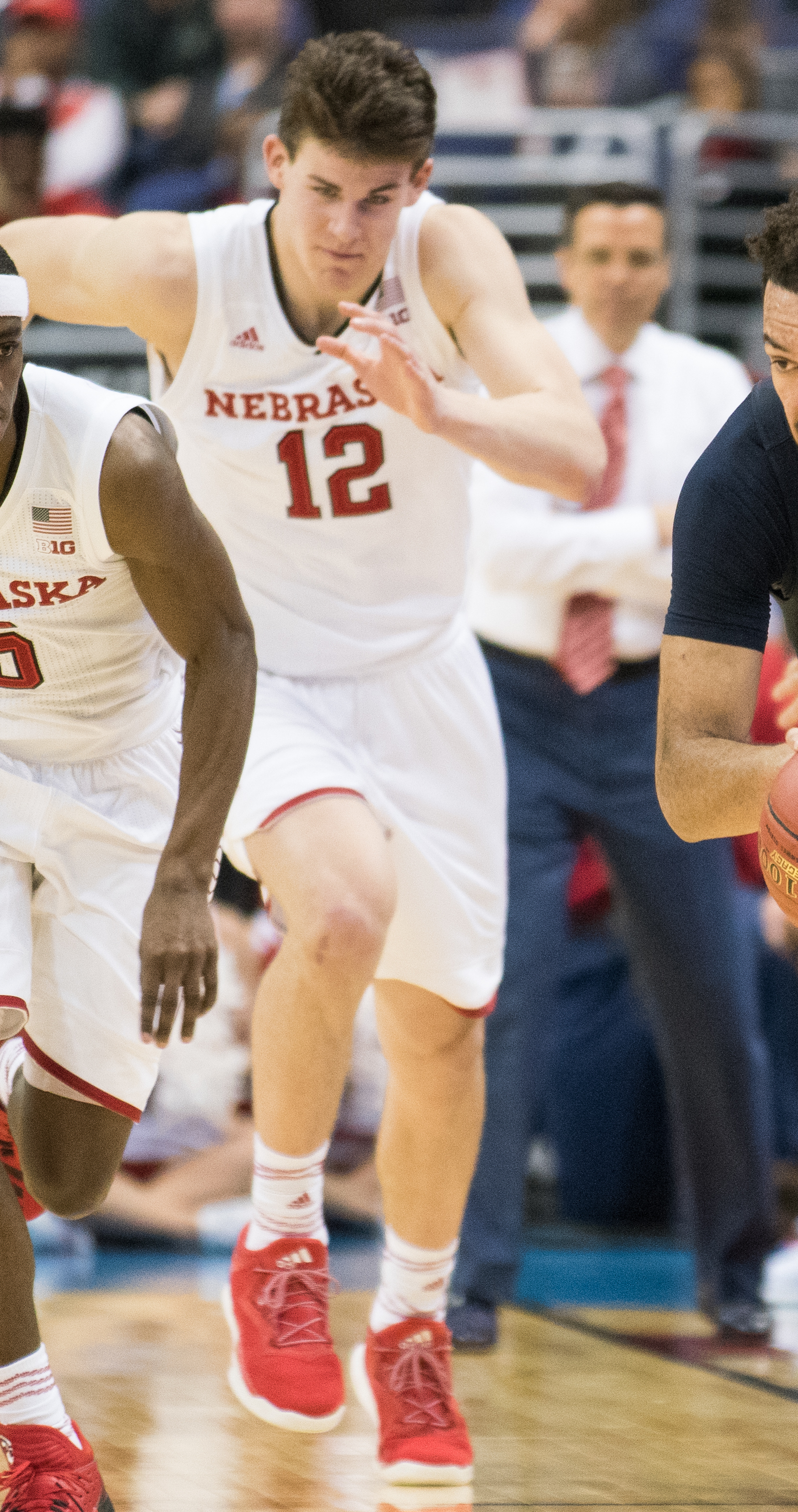 Penn State vs.Nebraska